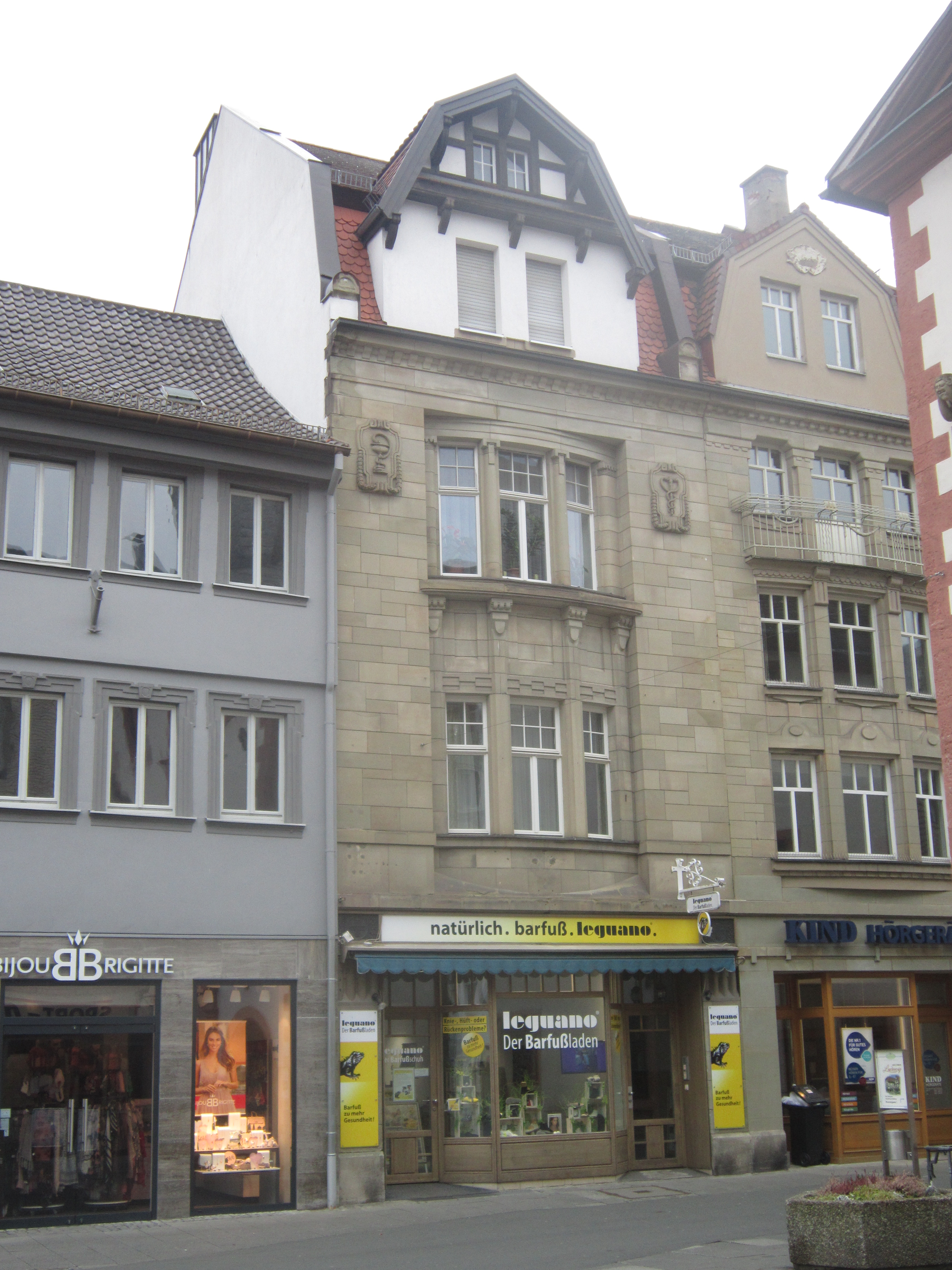 Building in the German spa town of Bad Kissingen in Lower Franconia (Bavaria) (Address: Marktplatz 07).